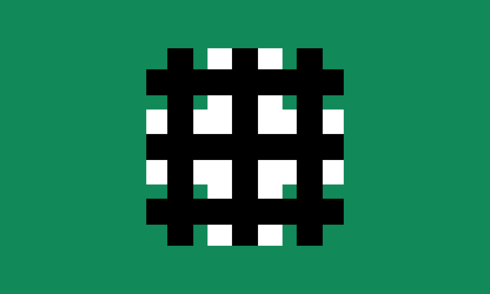 Party Flag of the Romanian fascist "Iron Guard" ("Legion of the Archangel Michael" or "Legionary Movement").